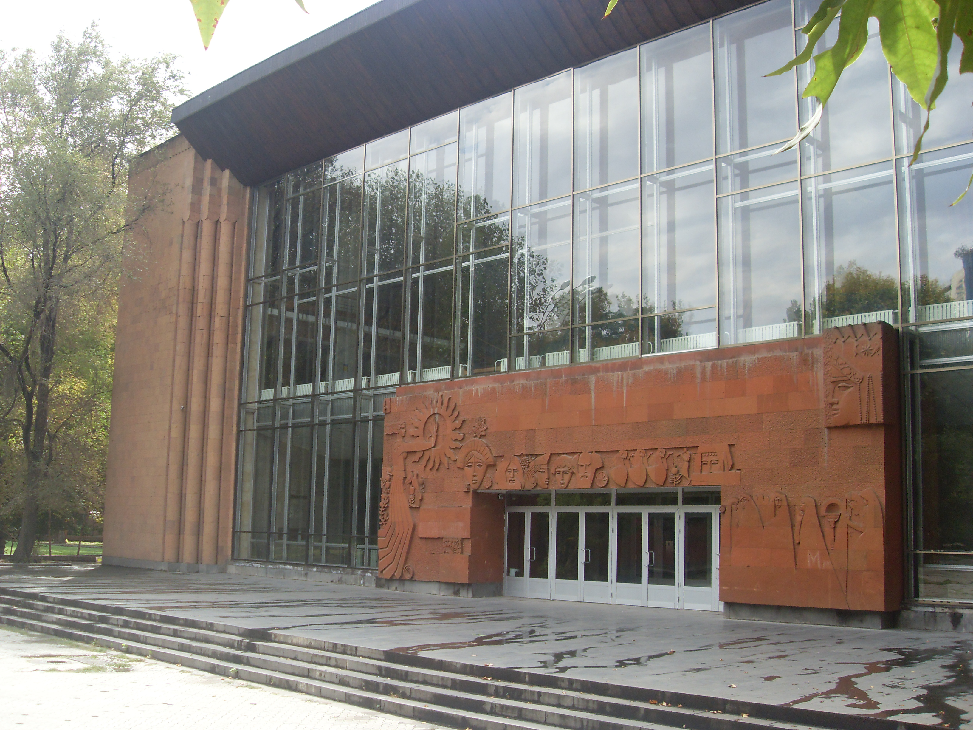 Sundukyan State Academic Theatre of Yerevan, 1966 6/78